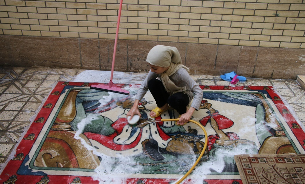 Khane-tekani of Nowruz 2018, Shahr-e Kord - 11 March 2018 (13961220000950636563863196807197 35819), An Iranian washes her personal room rug by hand in the yard.